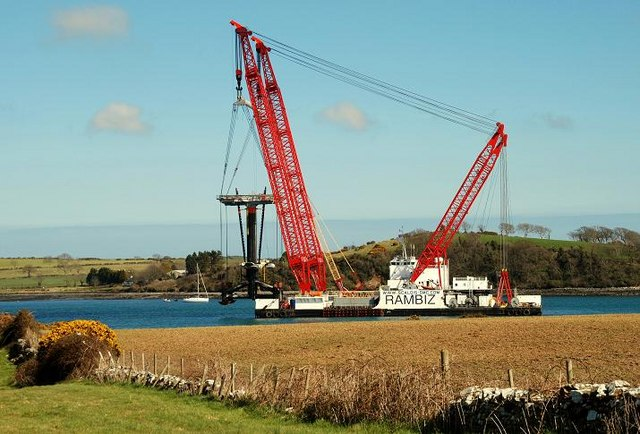 Tidal energy project, Strangford Lough (1)